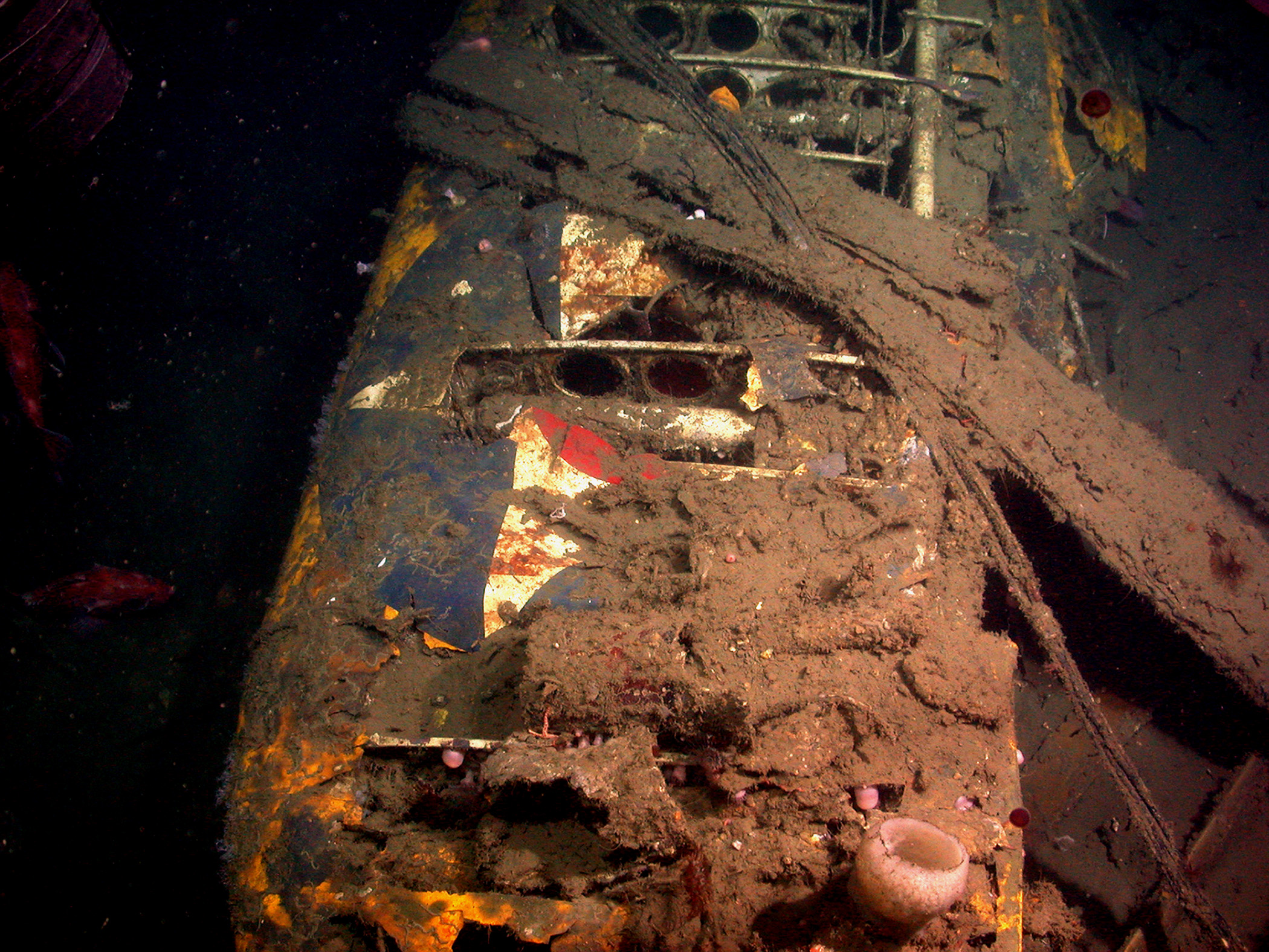 View of a port wing of one of four Curtiss Sparrowhawk F9C-2 biplanes found at the USS Macon site.